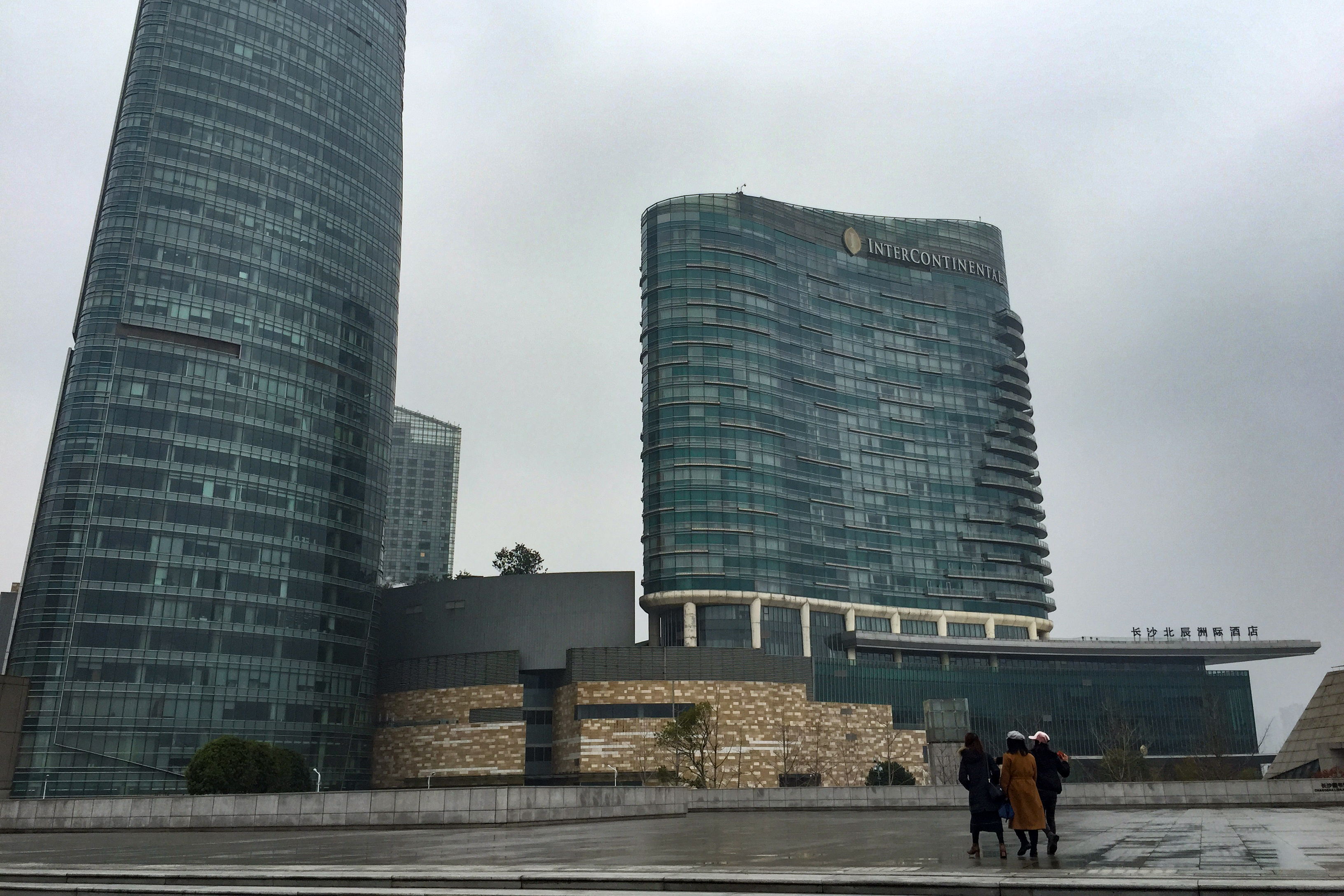 Located in Beichen Delta - wait a minute, another project by Beijing North Star?